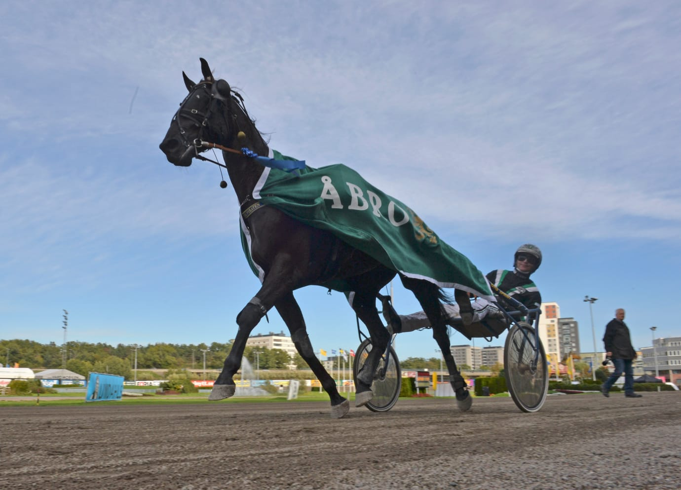 On Track Piraten and Johnny Takter.